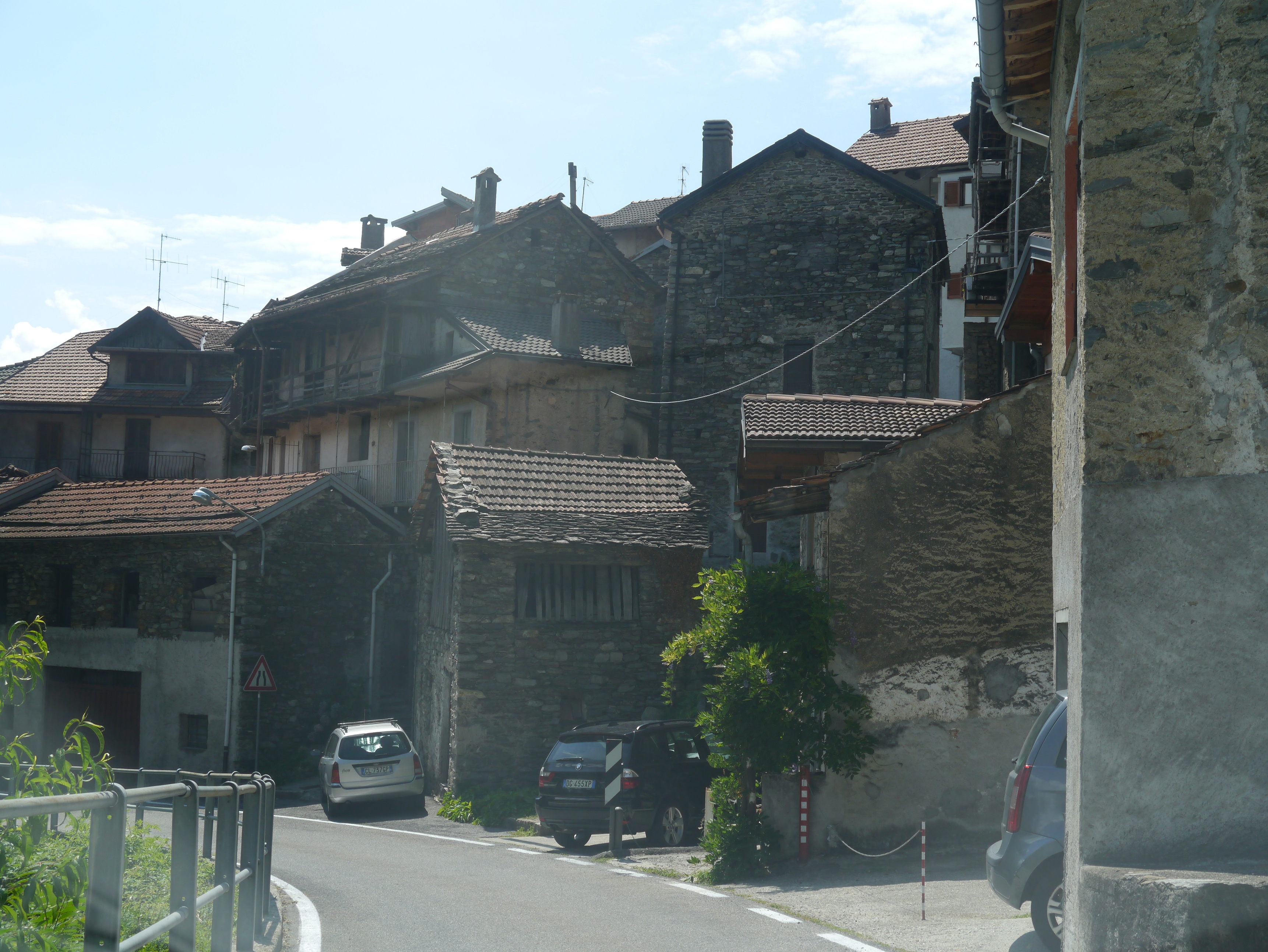 Alpe di Neggia road, Region of Lombardy, Italy